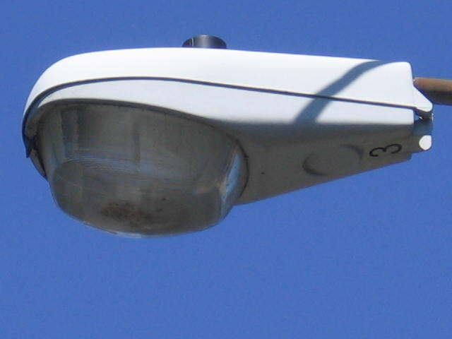 History of street lighting - Crouse Hinds, OVC, Rare 35 watt version found in Canton. Massachusetts